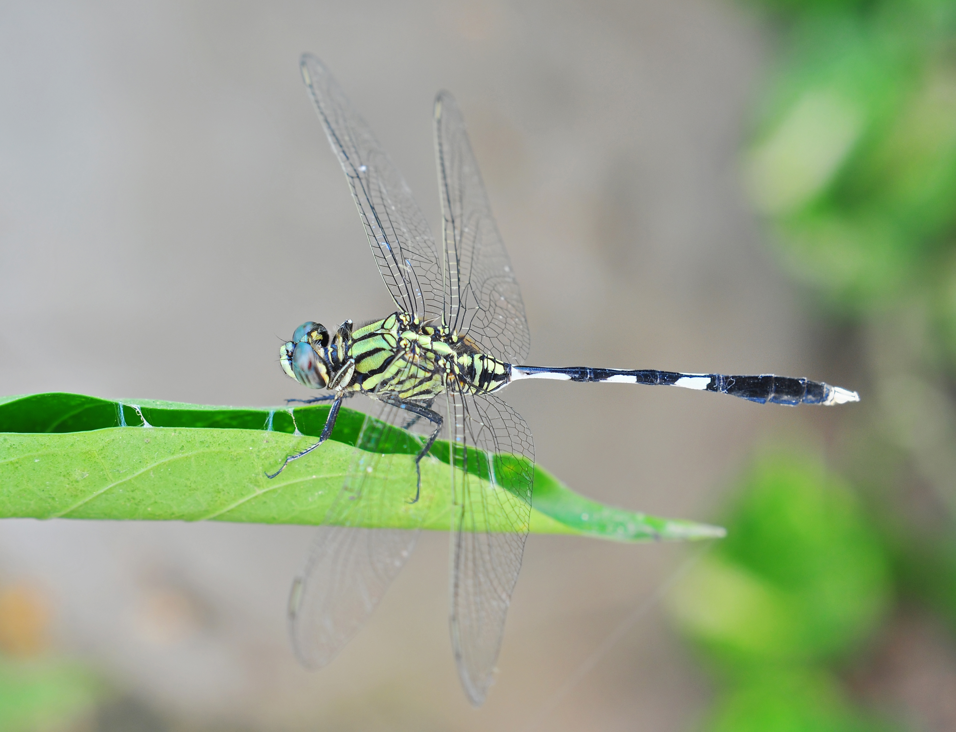 Green Marsh Hawk Orthetrum sabina (male) is a common dragonfly of gardens and fields. Abdomen: 30-36mm, Hind wing: 30-36mm. Thorax contains greenish yellow with black tiger like stripes. The abdomen segments 1-3 are green with broad black rings and distinctly swollen at the base. This dragonfly perches motionless on shrubs and dry twigs for a long time. This species can be seen far away from water. Breeds in ponds and tanks. Widely distributed in Ethiopian, Oriental and Australian region. It is found throughout Indian subcontinent. Taken at Burdwan, West Bengal, India.